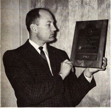 South Dakota State basketball coach Jim Iverson receives a coaching award after winning the 1963 NCAA College Division national championship